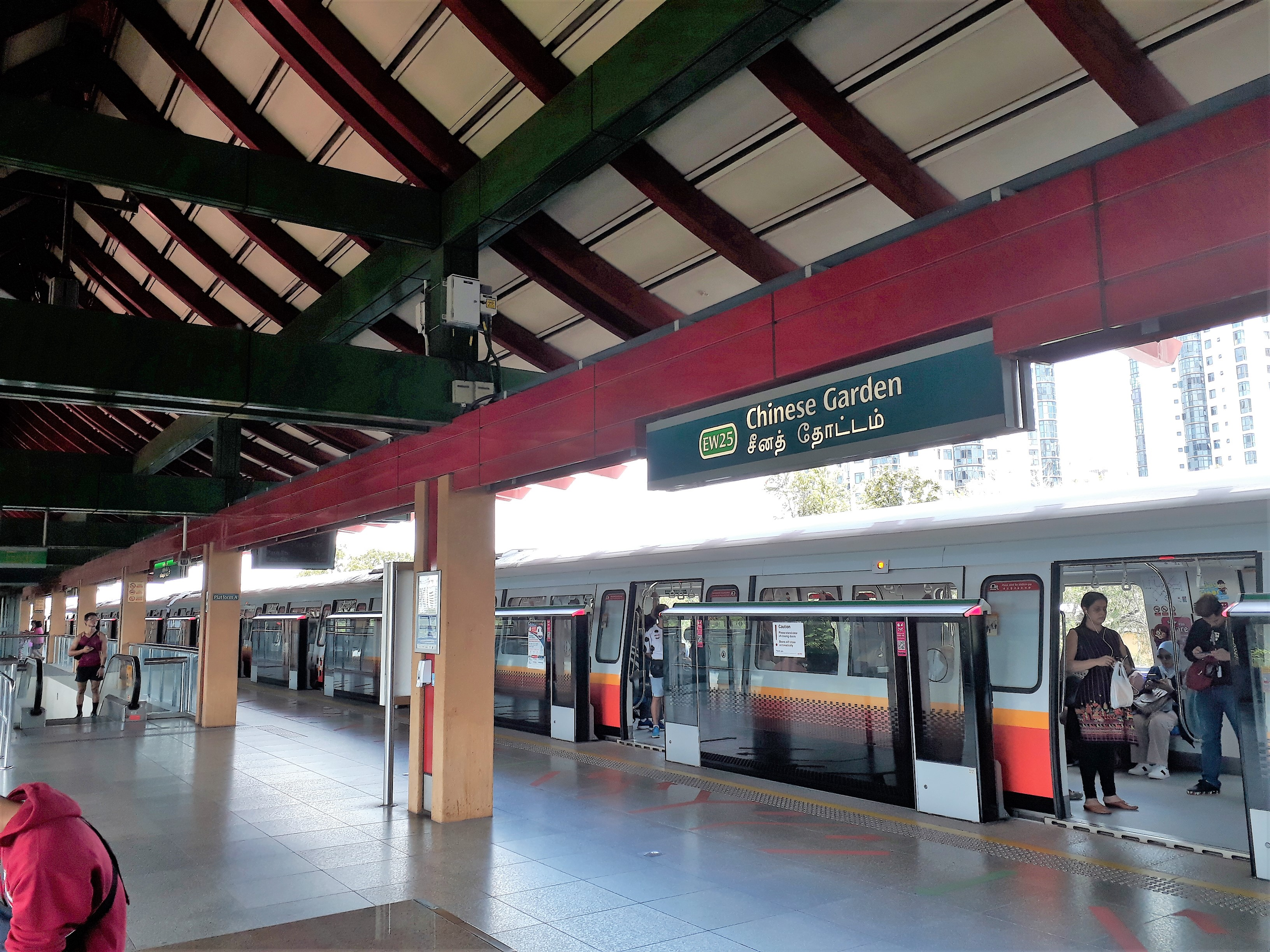 Chinese Garden station